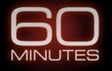 Wordmark for the CBS Television newsmagazine 60 Minutes.